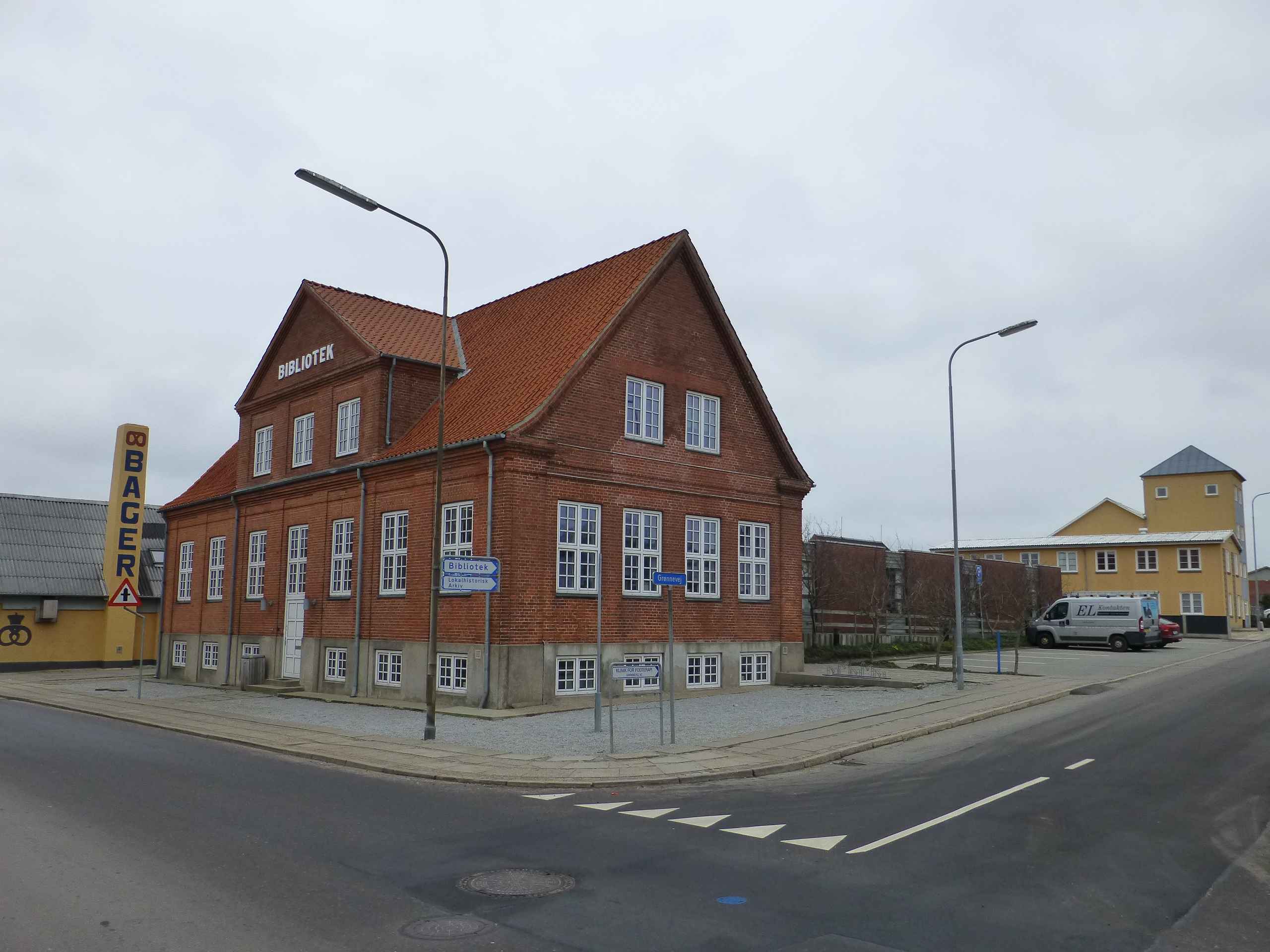 Hurup Bibliotek (Hurup Library) in Thy in Denmark.